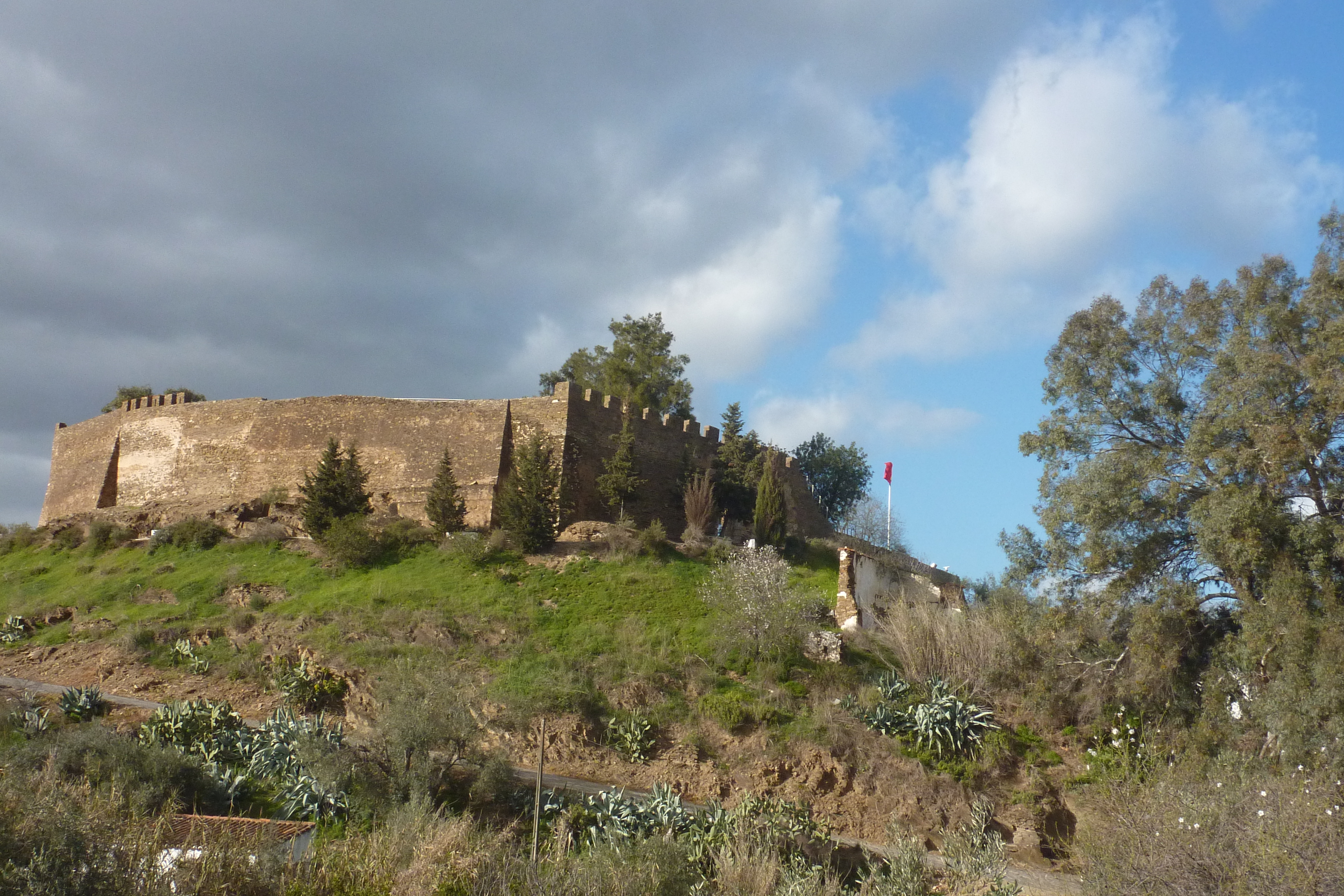 Castle of Alcoutim